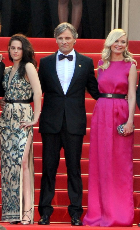 Kristen Stewart, Viggo Mortensen and Kirsten Dunst promoting "On the road" at the Cannes film festival